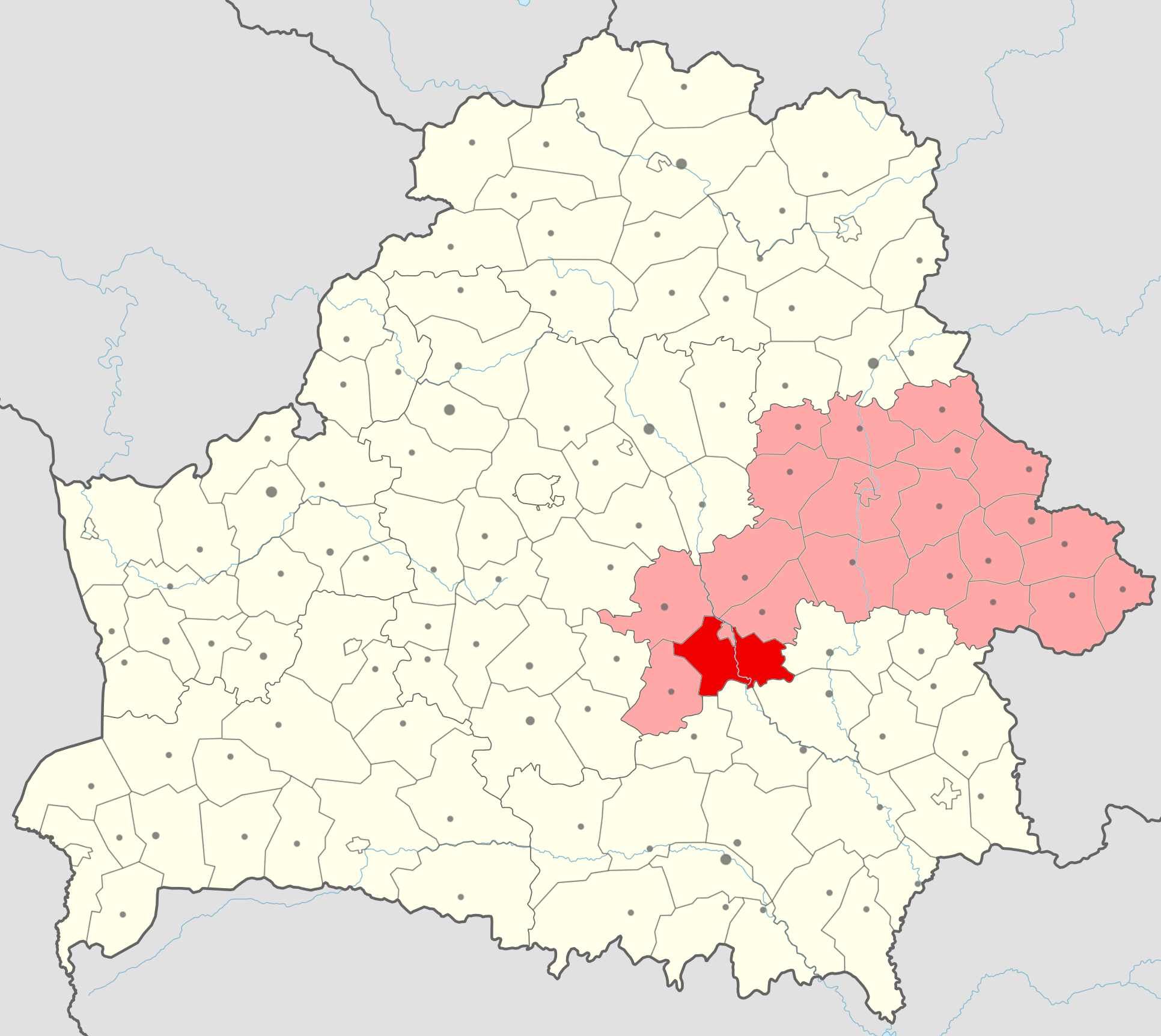 Location of Babrujski rajon (red) in Mahilioŭskaja voblasć (light red) in Belarus.